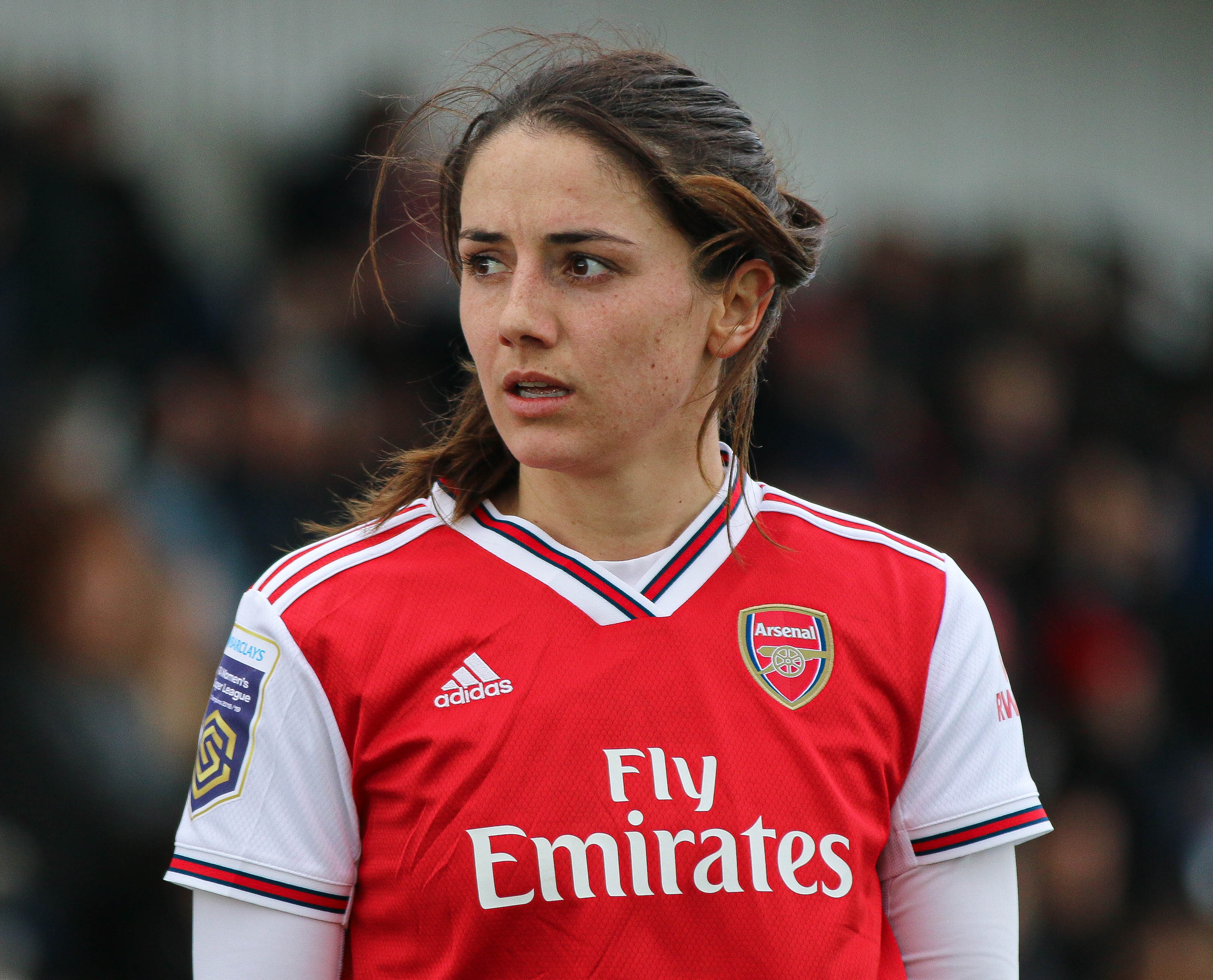 Arsenal WFC – Lewes L.F.C., 23 February 2020